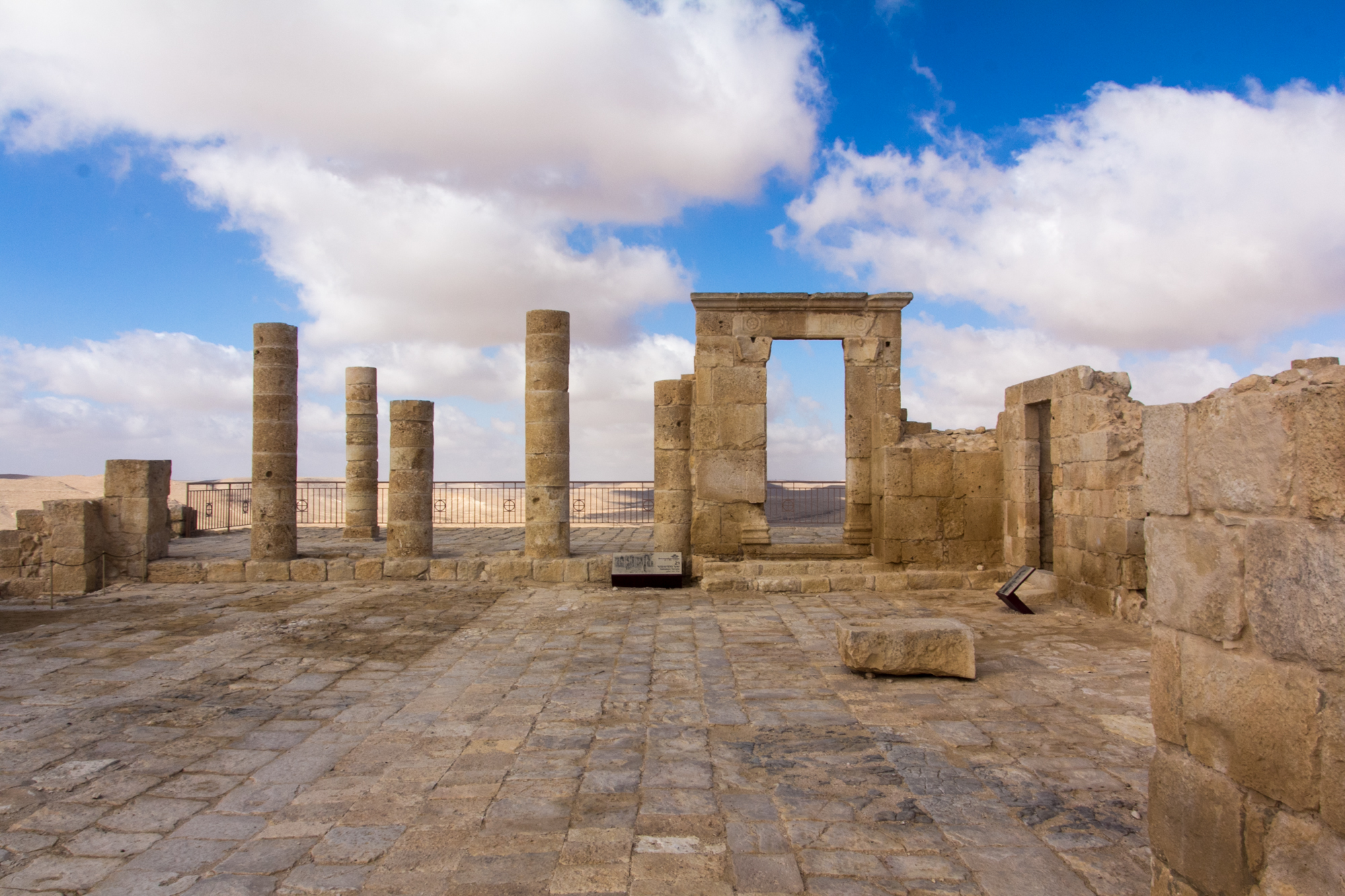 Ancient Nabatean city of Avat, Israel. Temple of Obodas